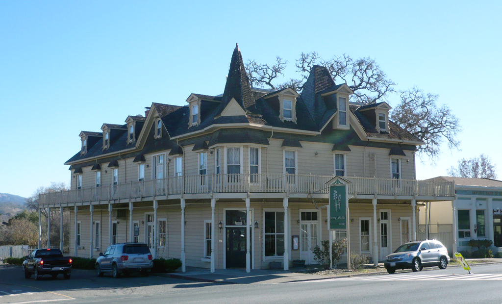 An old hotel by the side of 101 Redwood Highway in Hopland, California.